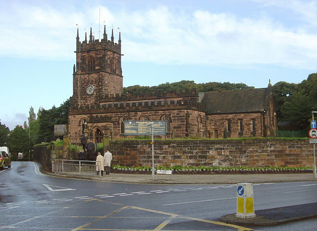 St Michael's parish church, Huyton, Merseyside (formerly Lancashire), seen from the south. The red sandstone is typical of many churches in south Lancashire and northern Cheshire.